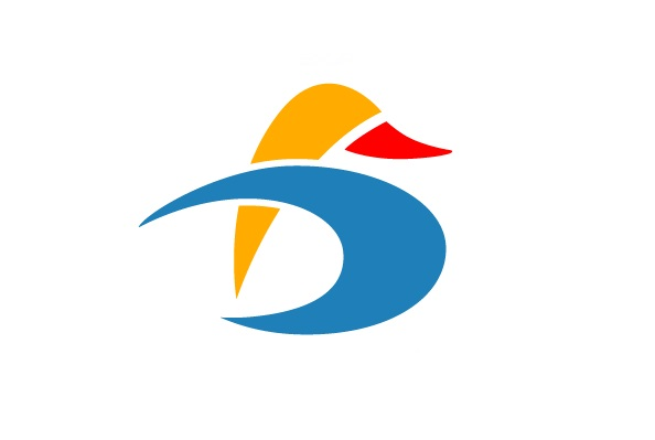 Flag of Kamogawa, Chiba